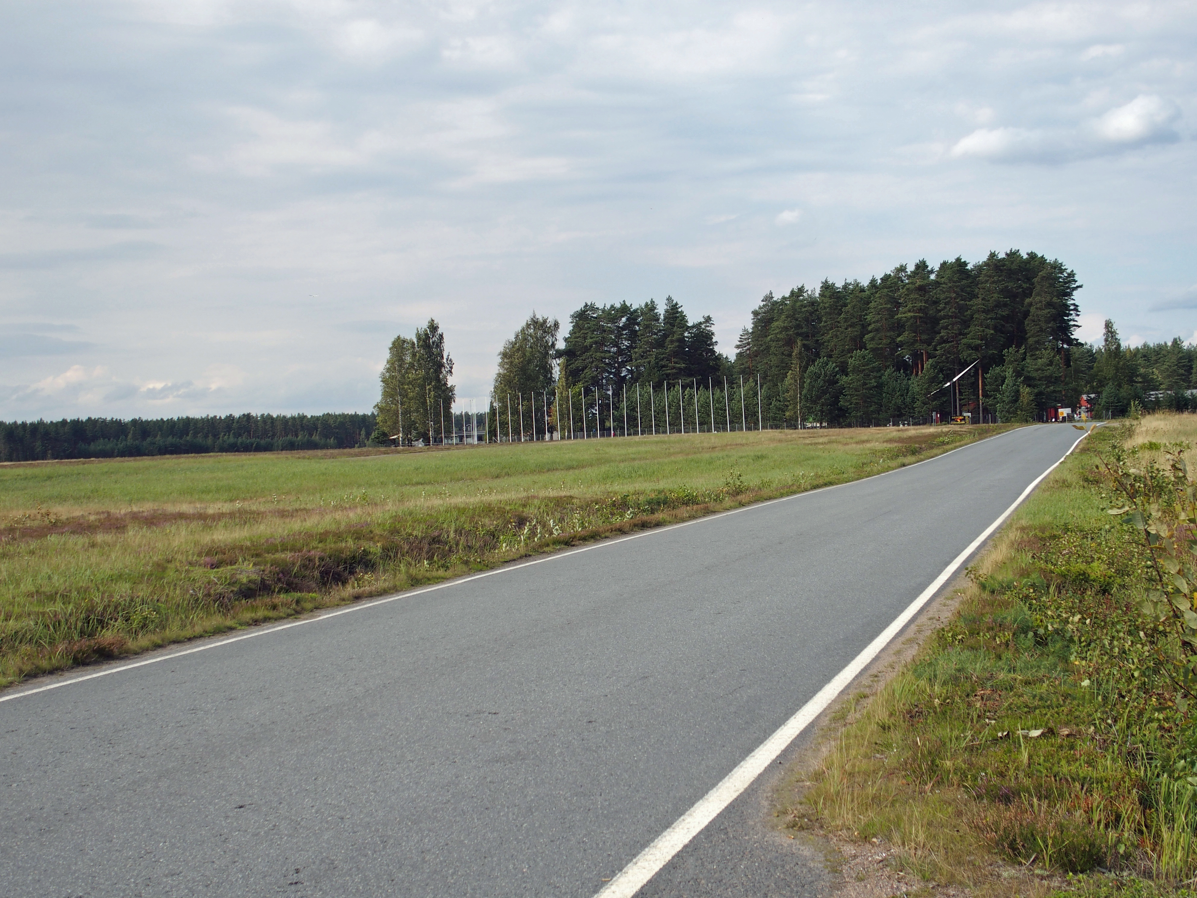 Räyskäläntie road (local road 13624) near Räyskälä Airfield in Loppi, Finland